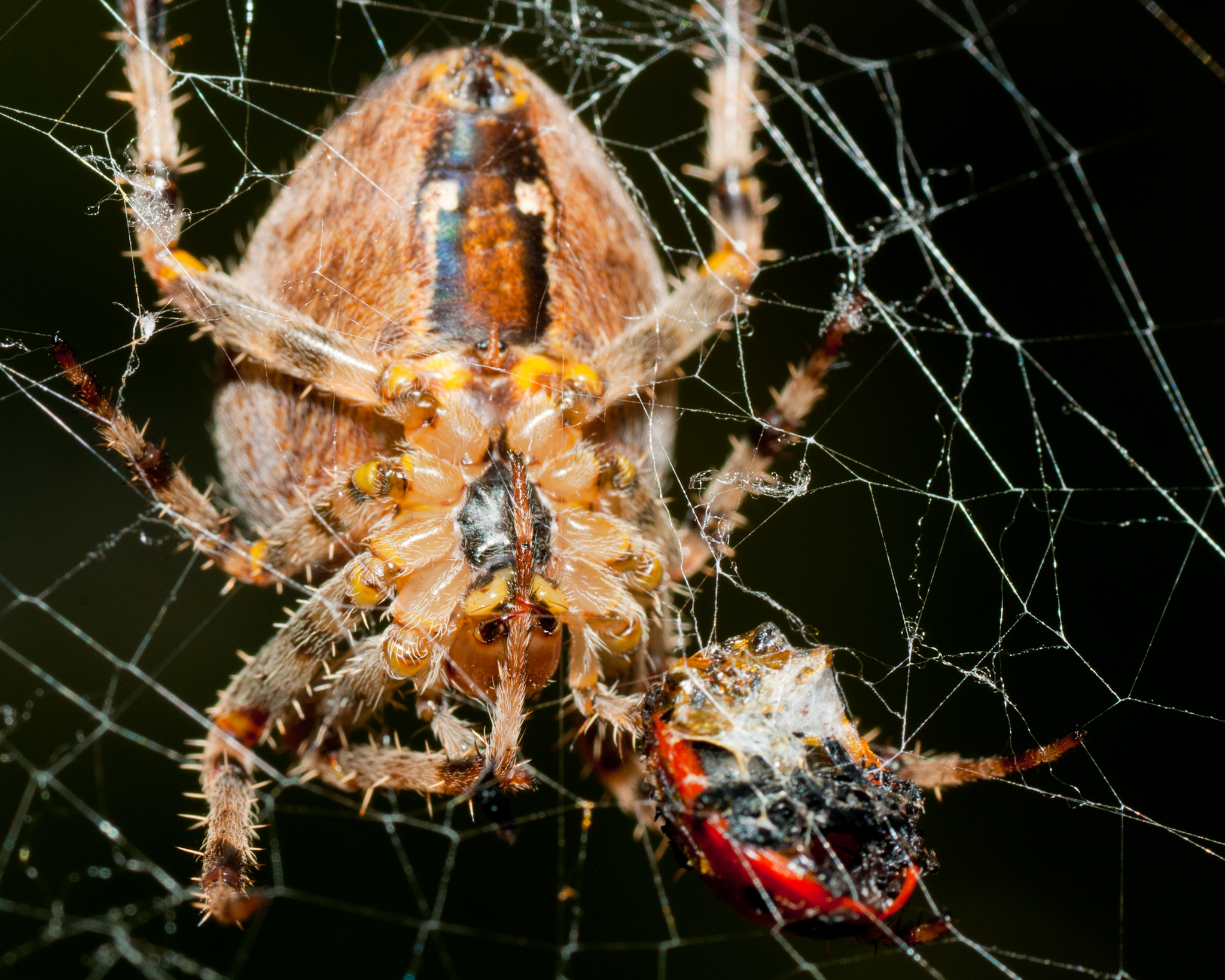 The epigyne or epigynum is the external genital structure of female spiders. As the epigyne varies greatly in form in different species, even in closely related ones, it often provides the most distinctive characteristic for recognizing species. It consists of a small, hardened portion of the exoskeleton located on the underside of the abdomen, in front of the epigastric furrow and between the epigastric plates.